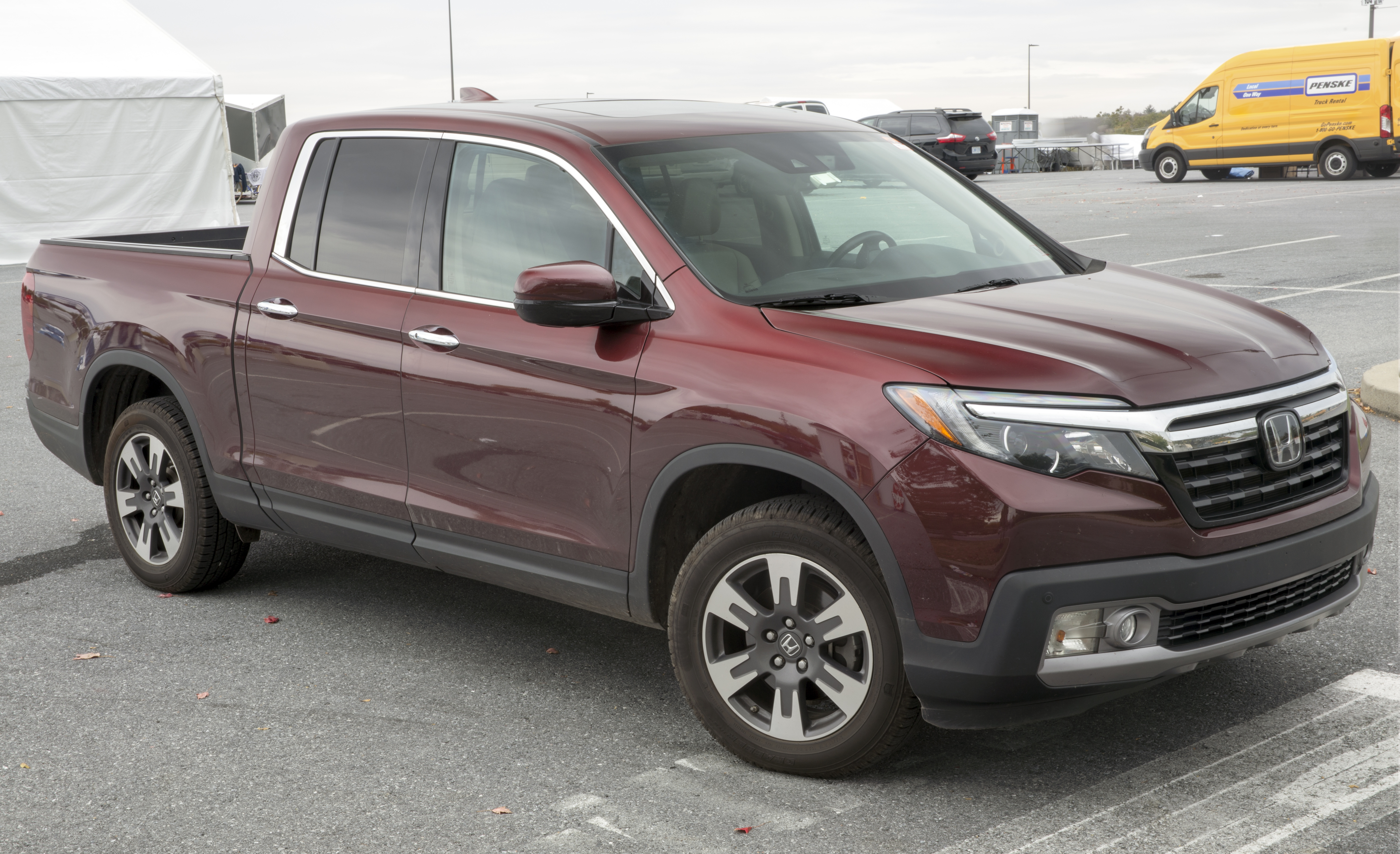 A 2017 Honda Ridgeline RTL-E (Deep Scarlet Pearl) in the Swap Meet area at Hershey 2019.